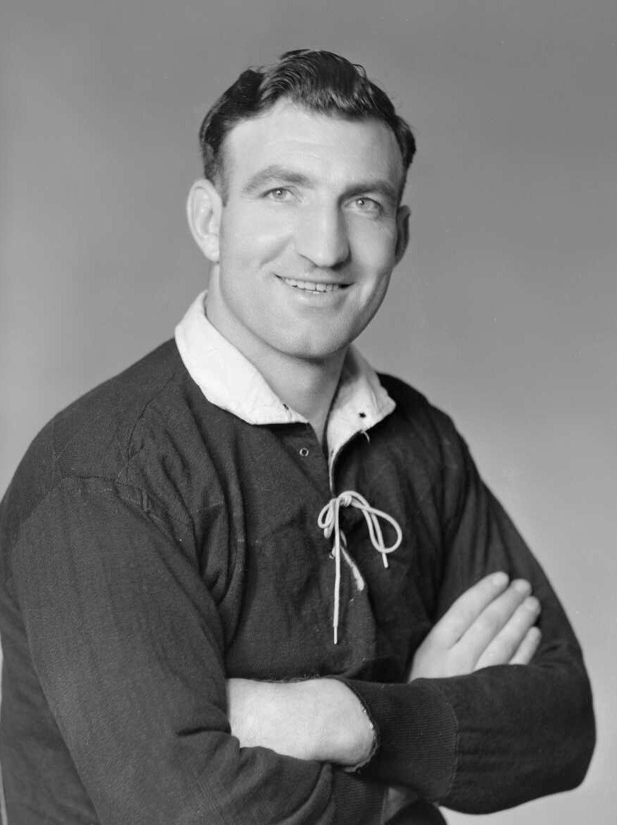 Photograph of rugby player Laurie Haig, taken by Crown Studio Ltd of Wellington.